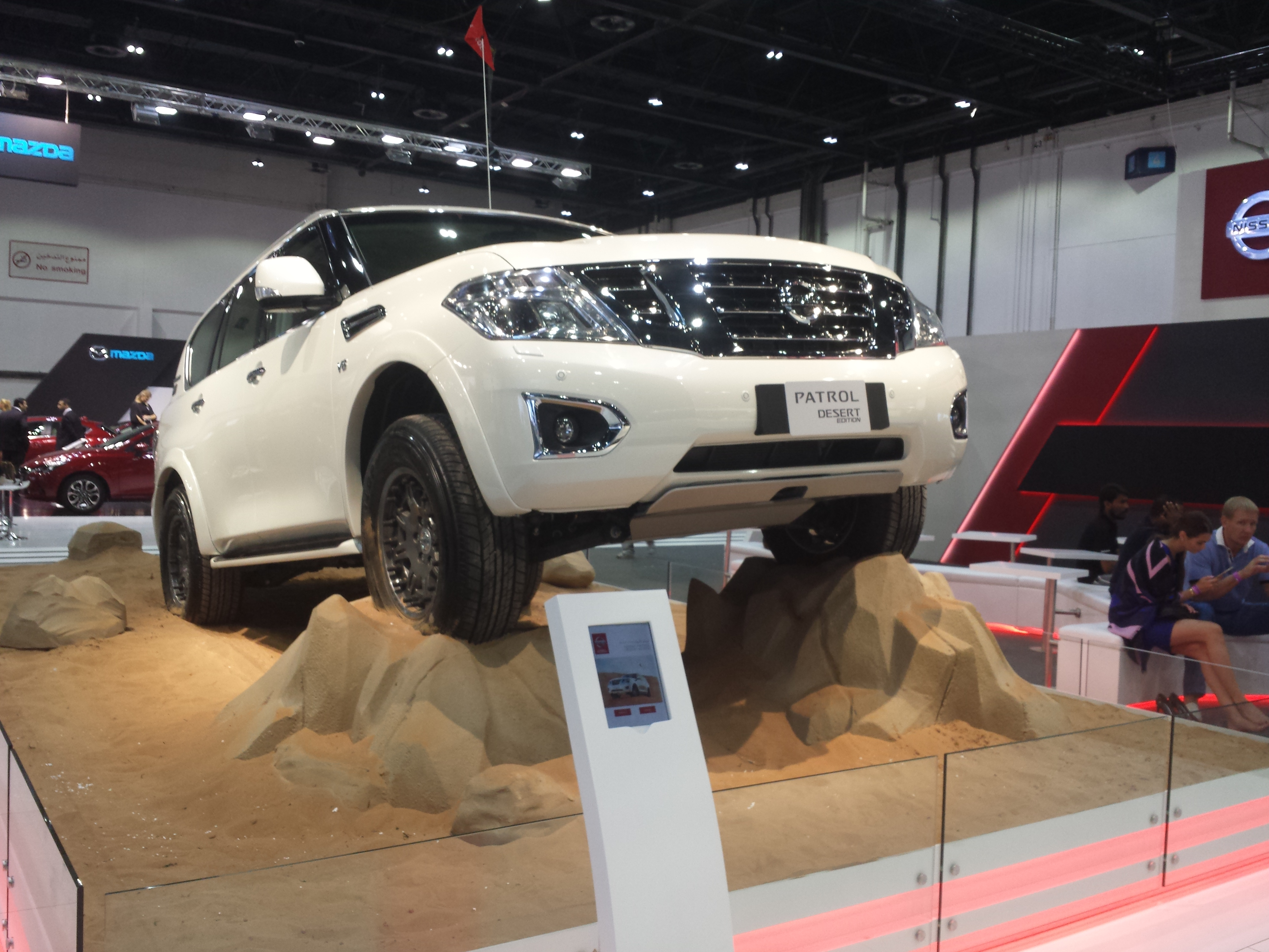 Nissan Patrol Desert Edition in the 2015 Dubai Motor Show, skids plates, beadlock rims, fender flares and upgraded shocks were added to the normal Nissan Patrol. The extensive skid plates protect the entire under body of the vehicle .